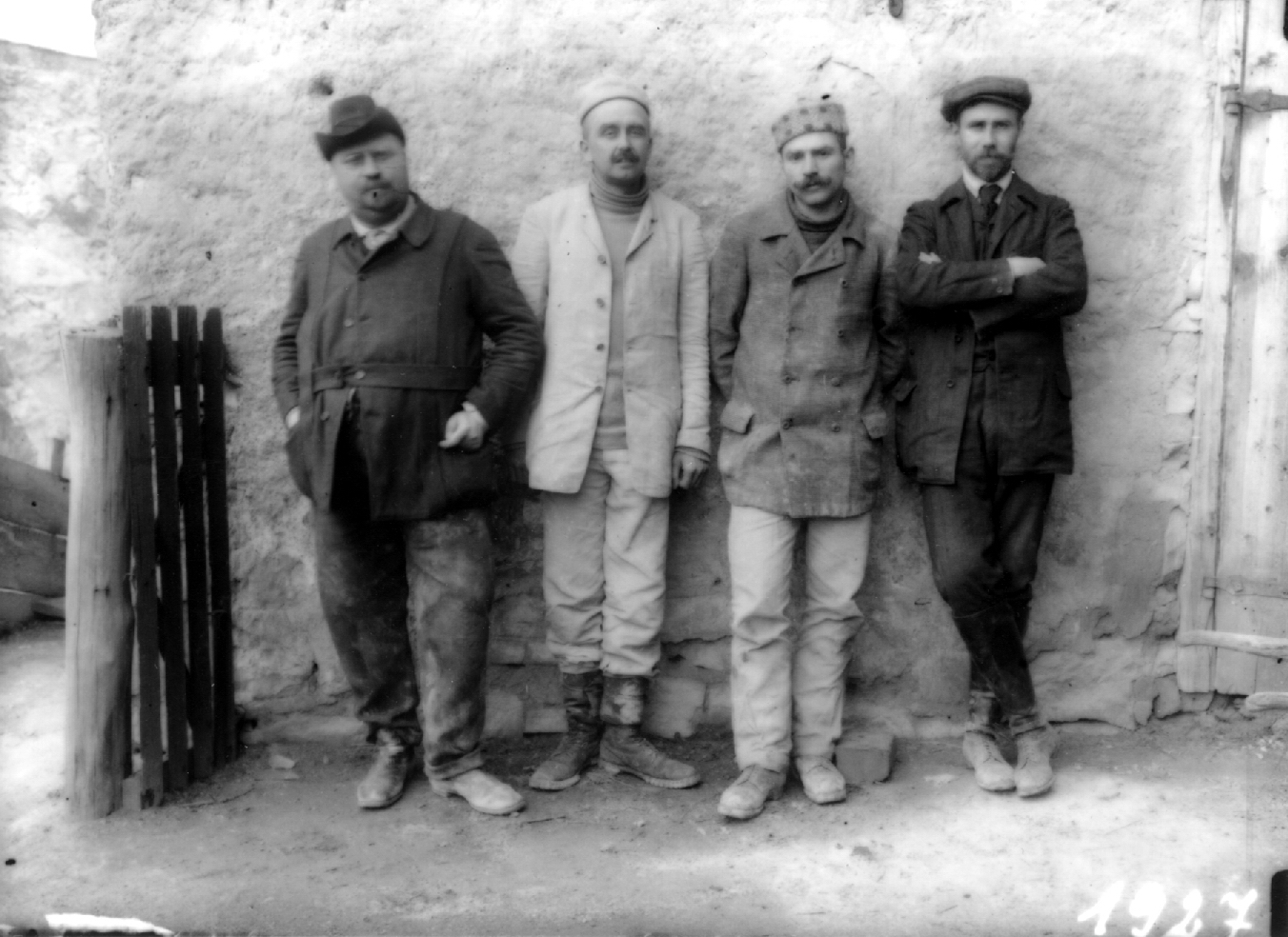 Explorers of Pál-völgy Cave in 1910.